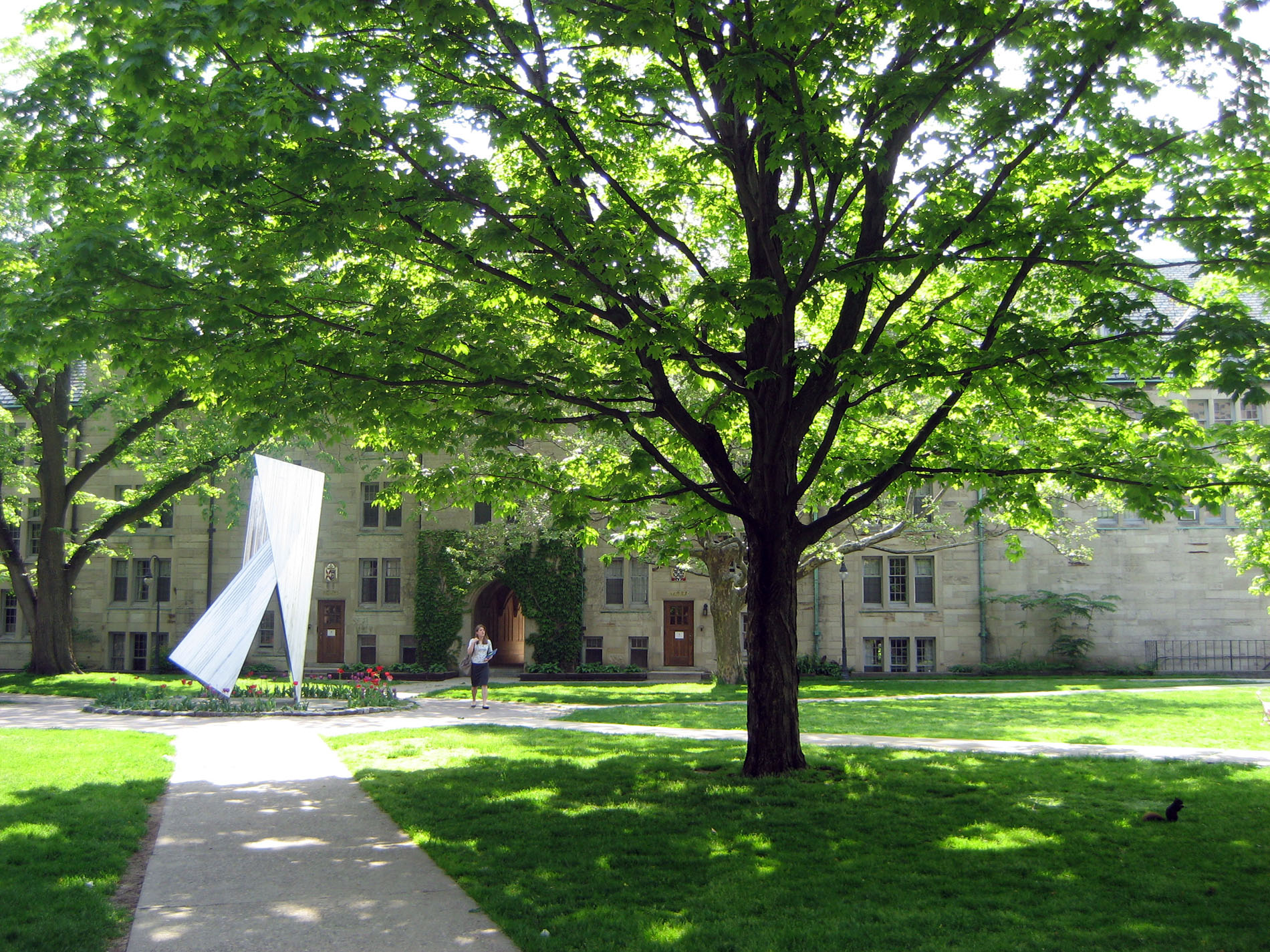 A courtyard at St. Michael's College, University of Toronto